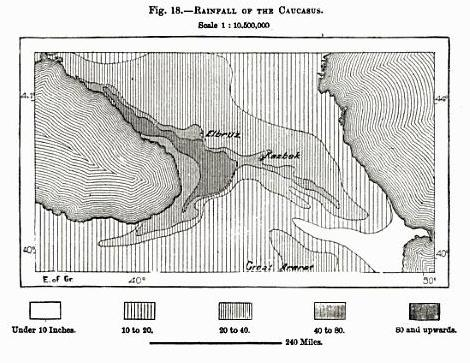 Rainfall of the Caucasus